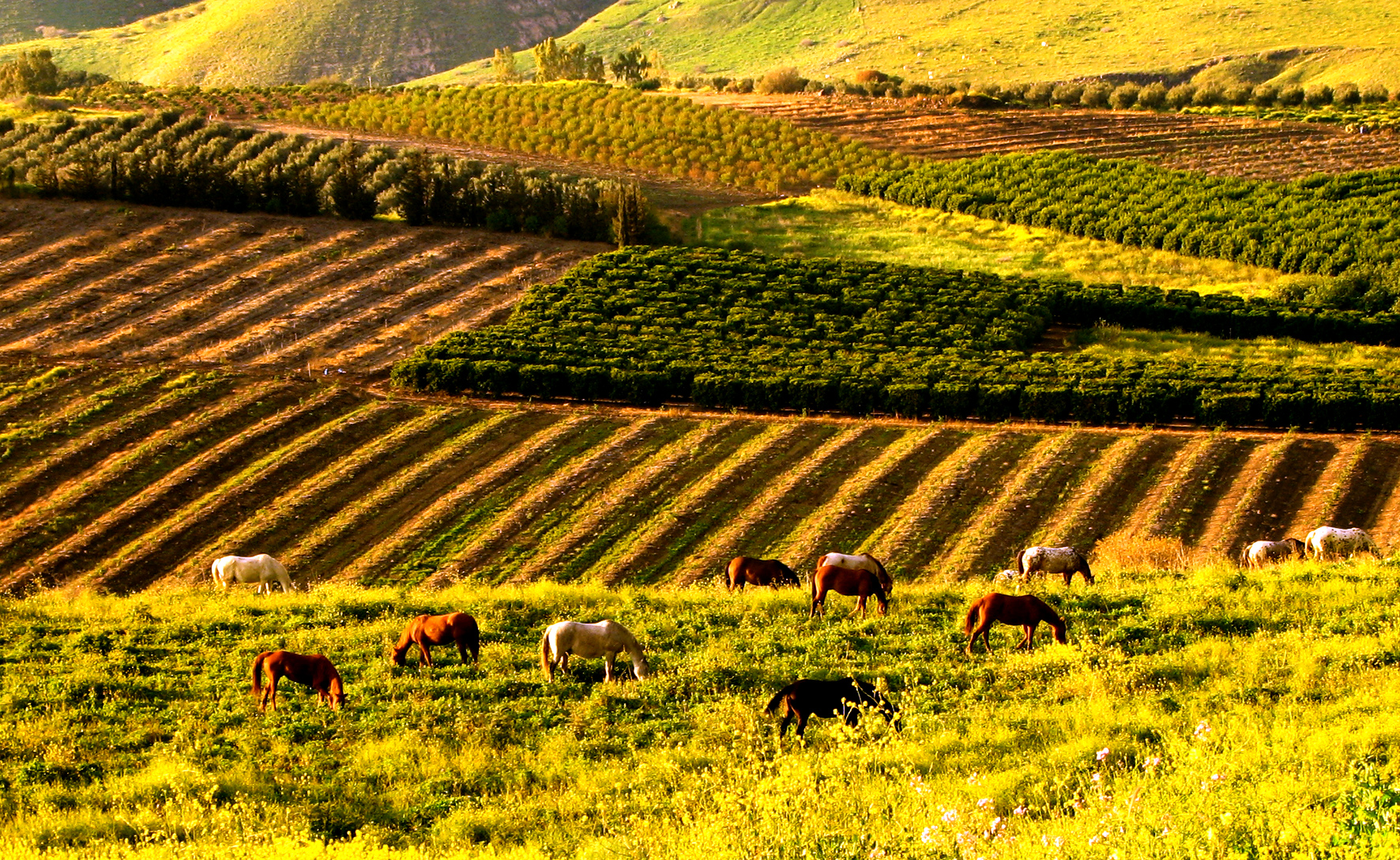 Golan Heights